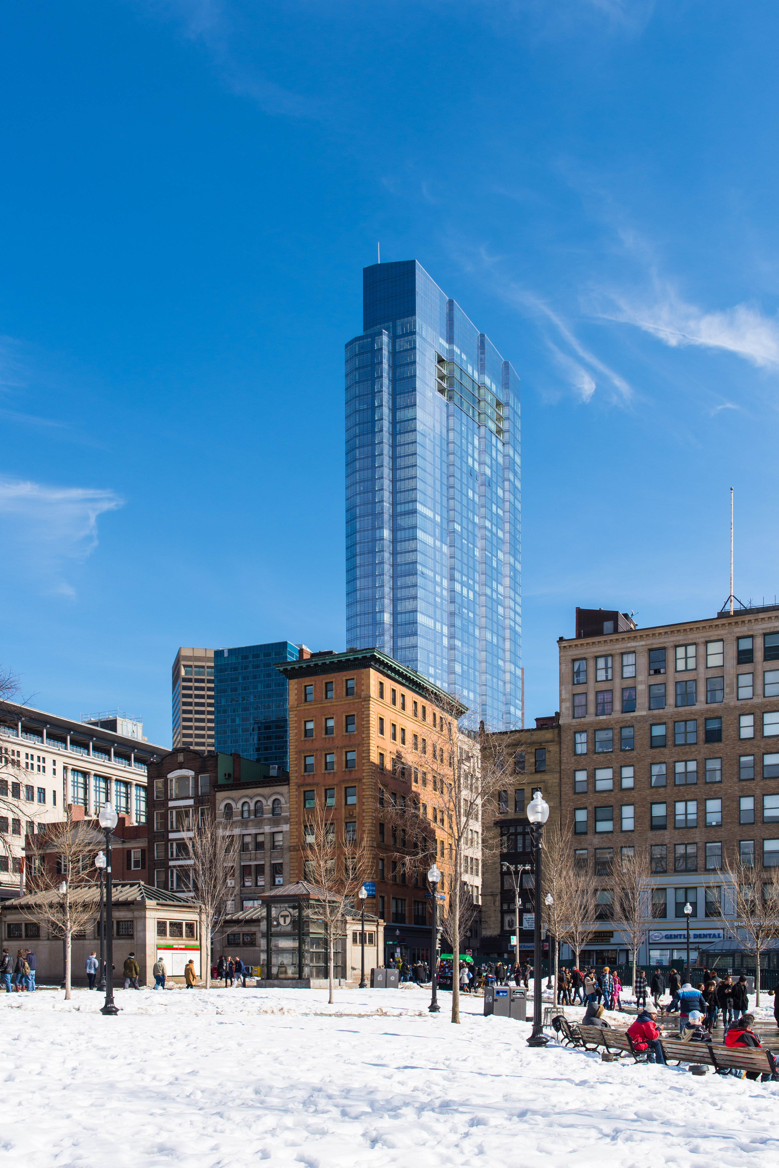 Millennium Tower, a residential skyscraper in Boston, as seen from the Boston Common in winter.